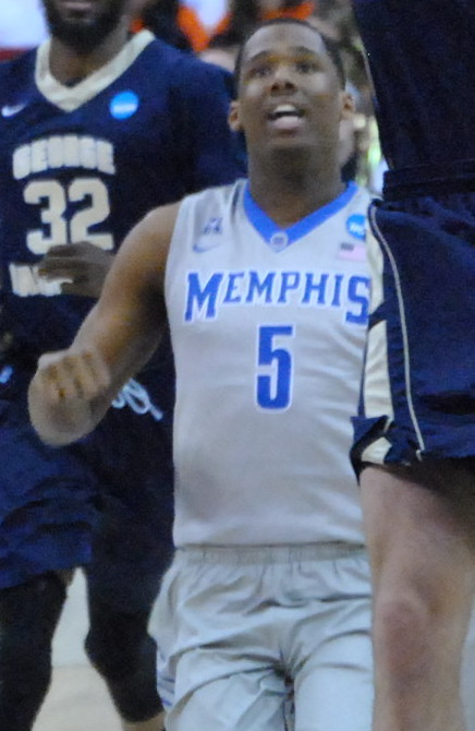 Geron Johnson battles for the rebound